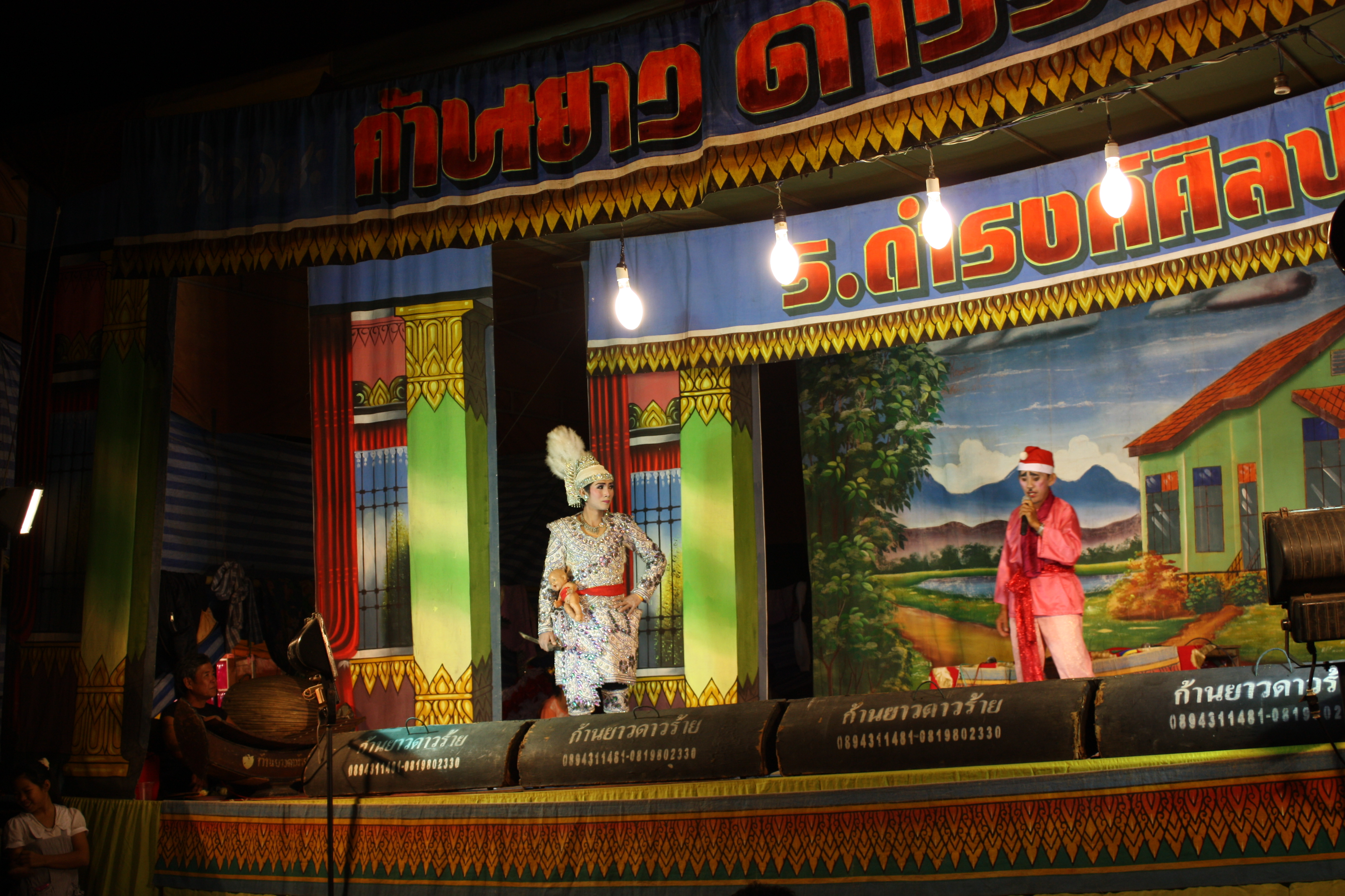 Likae (ลิเก)